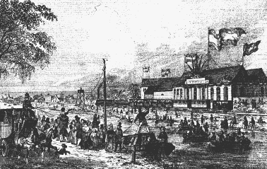 Copper engraving of the opening of the first Dutch railroad. Owned by the Spoorwegmuseum in Utrecht.